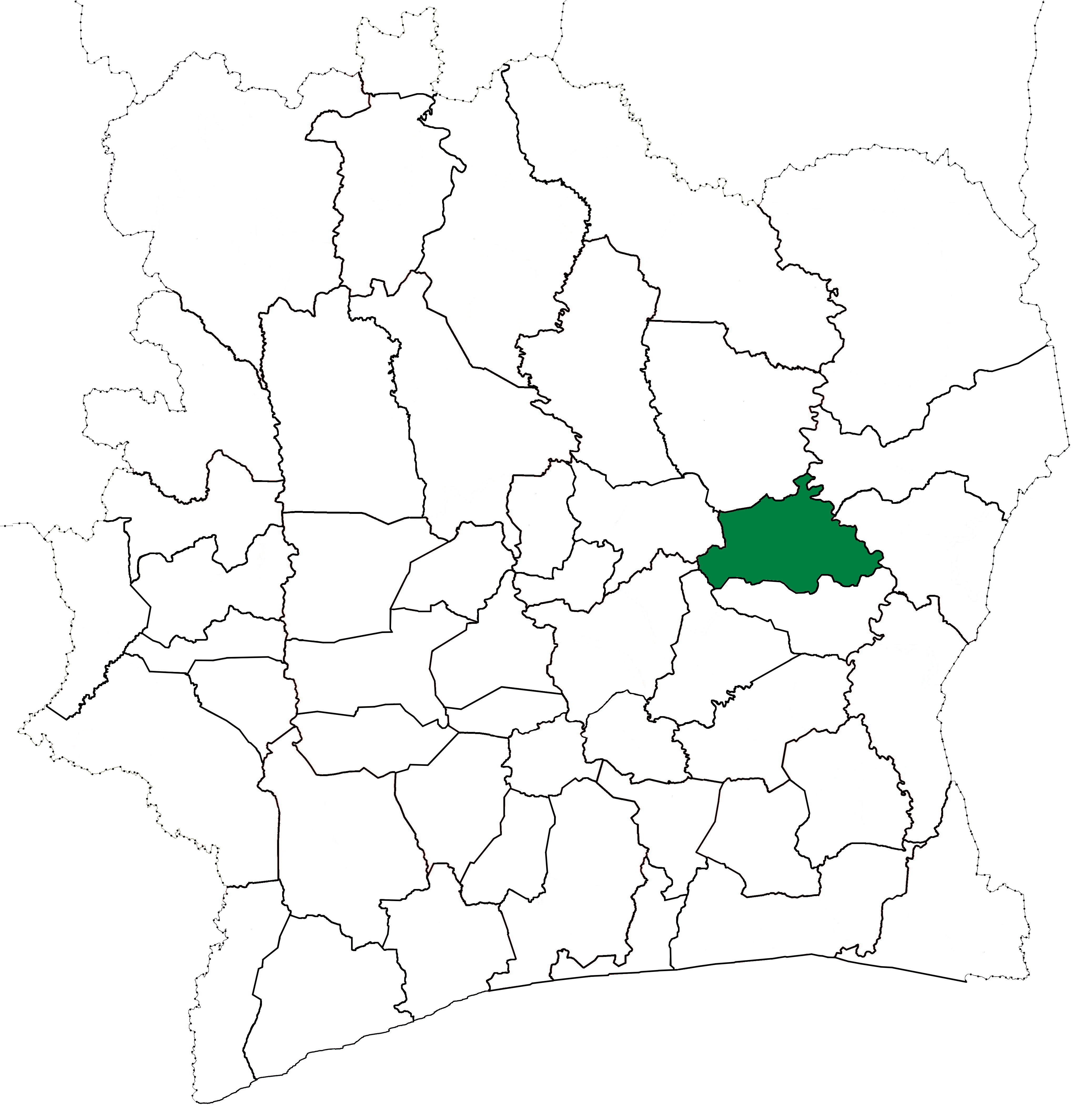 Locator map for M'Bahiakro Department in Côte d'Ivoire when it was created in 1988. M'Bahiakro Department kept these boundaries until 2005, but other boundary changes to subdivisions of Côte d'Ivoire began to be made in 1995.